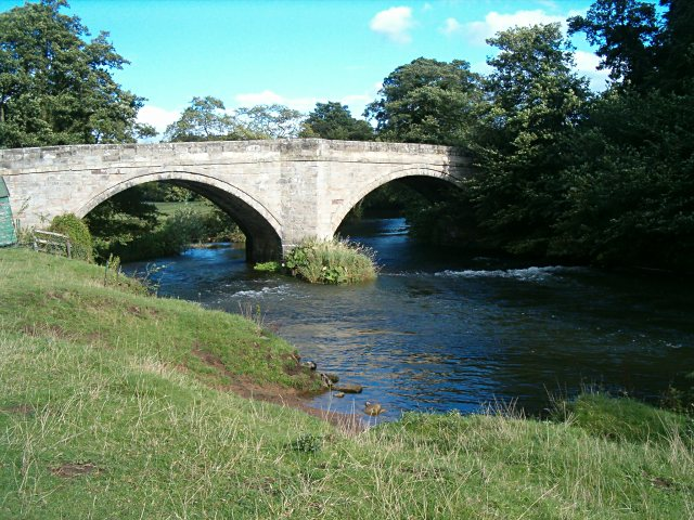 Bridge over the River Dove between and Norbury, Derbyshire and Ellastone in Staffordshire